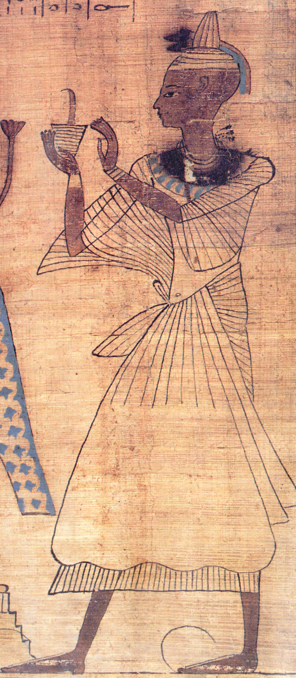 Vignette from the Book of the Dead Penmaat. Penmaat is depicted in his position as a priest of Amun, burning incense and showing the shaved head that was required for priestly purity.